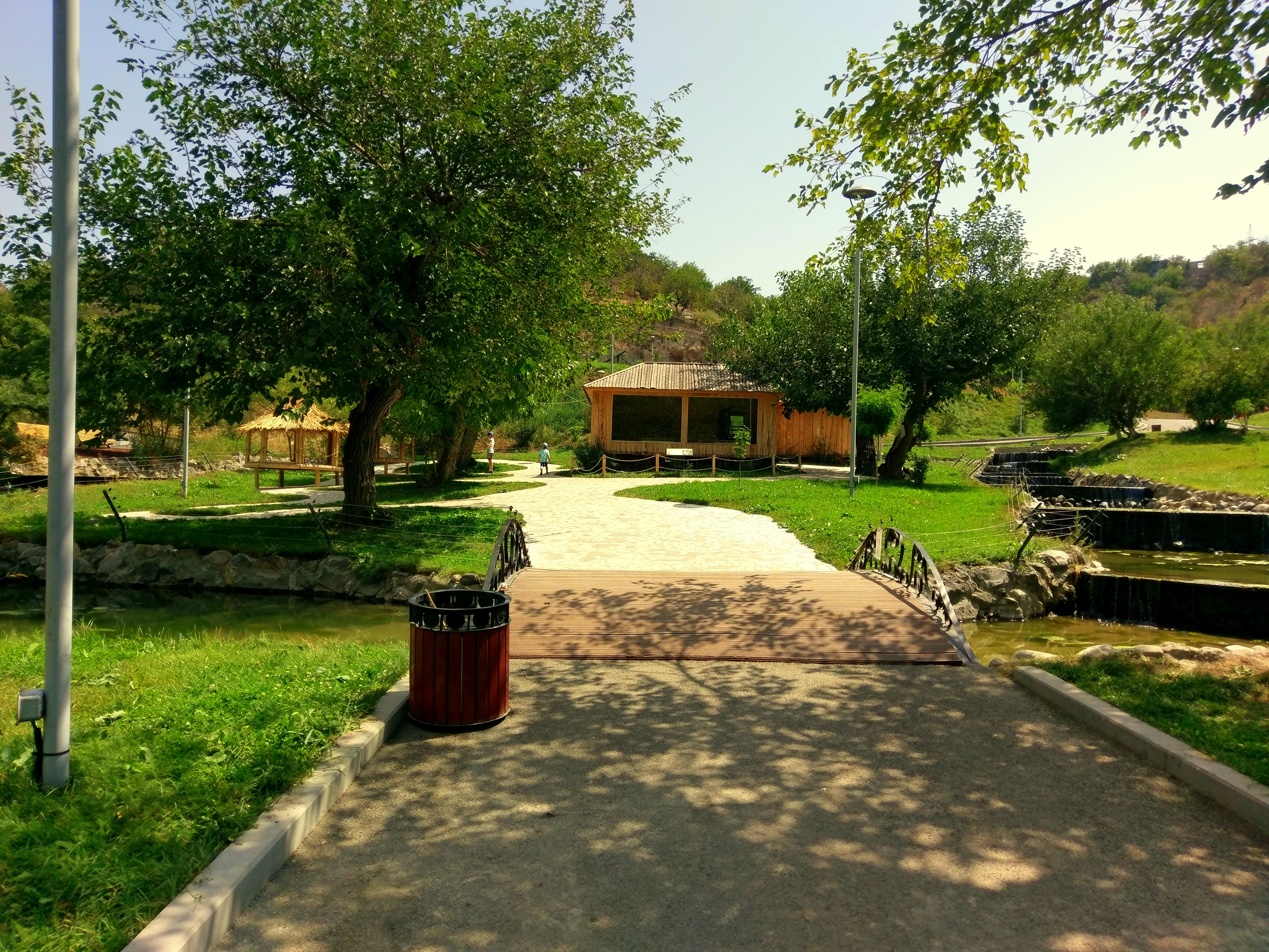 Yerevan Zoo